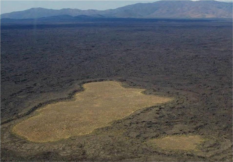 Craters of the Mooon National Monument and Preserve, Idaho, USA. This image shows two kipukas, patches of older, eroded lava where soil have been produced within larger flows of young lava. These kipukas are small ecosystems on their own, like islands.